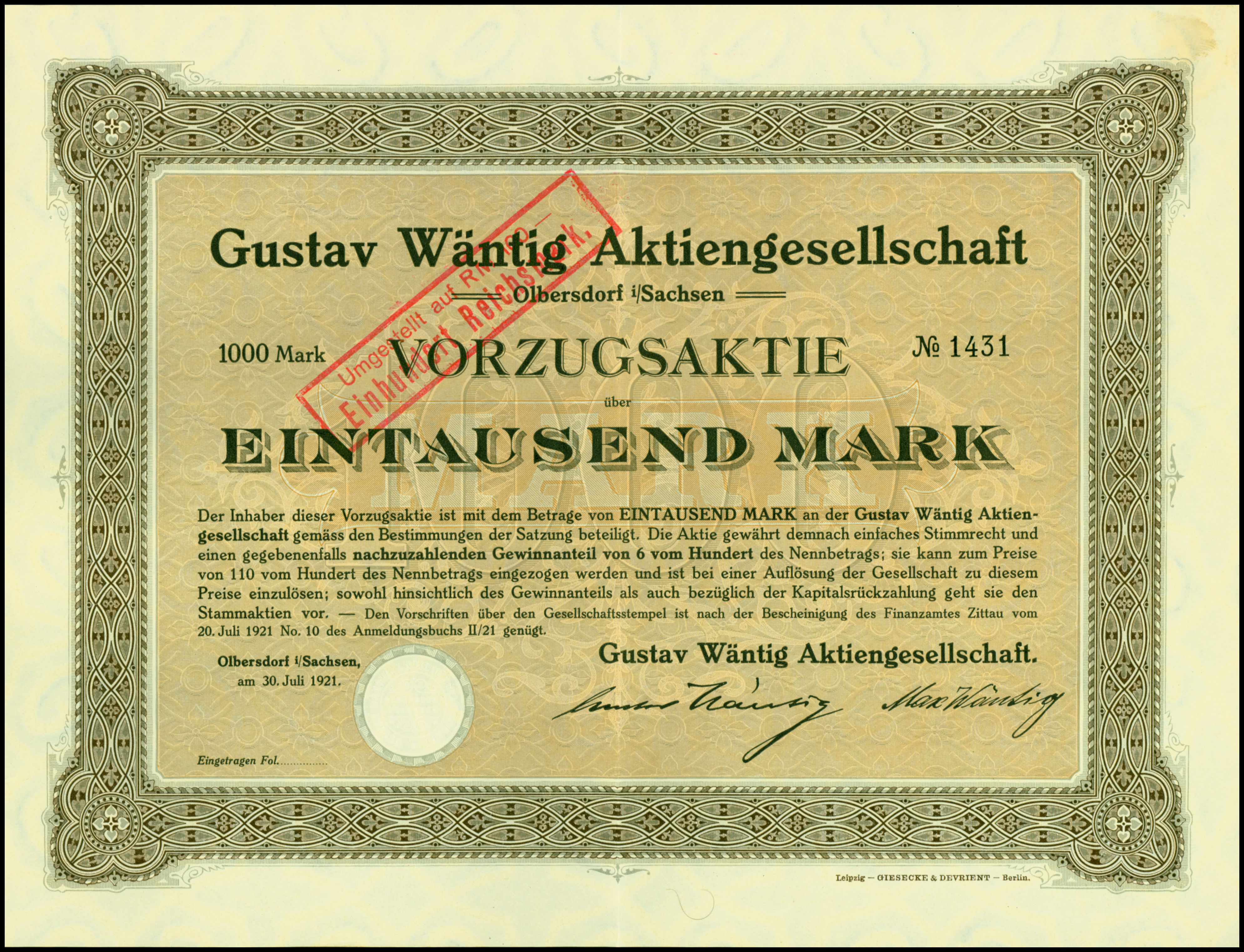 Preferred Share of the Gustav Wäntig AG, issued 30. July 1921